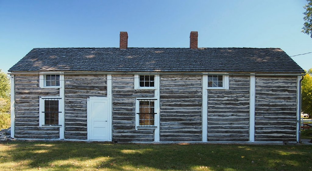 Fort Wadsworth Agency & Scout Headquarters Building, Sam Brown Memorial State Wayside, Browns Valley, Minnesota, USA. Built in 1864 for Fort Wadsworth (later Fort Sisseton) in South Dakota, purchased and moved by Joseph R. Brown in 1866, then moved to present location in 1871 by Brown's son Sam. Viewed from the west.